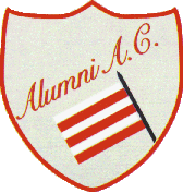 Logo of Argentine institution Alumni Athletic Club.